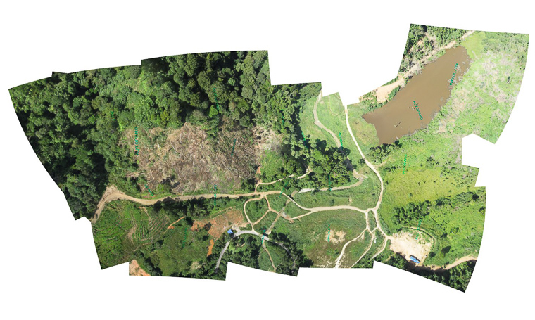 Conservation Drones using GIS software to connect images that were taken.